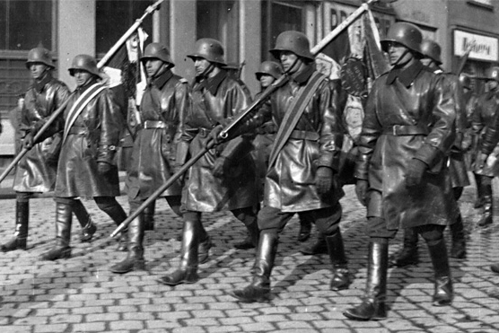 10th Motorized Cavalry Brigade (Poland), Rzeszów